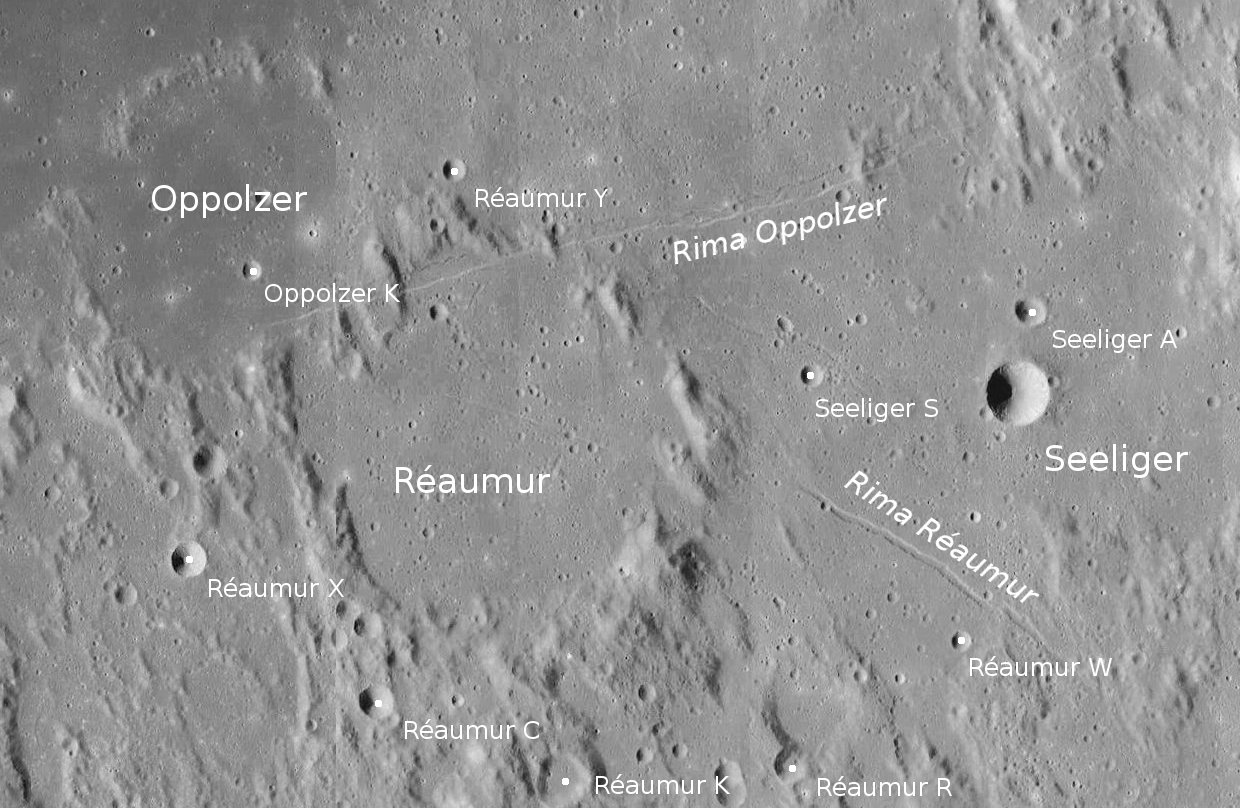 Craters Réaumur, Oppolzer and Seeliger with Rima Réaumur (detail of LRO - WAC global moon mosaic; Mercator projection)